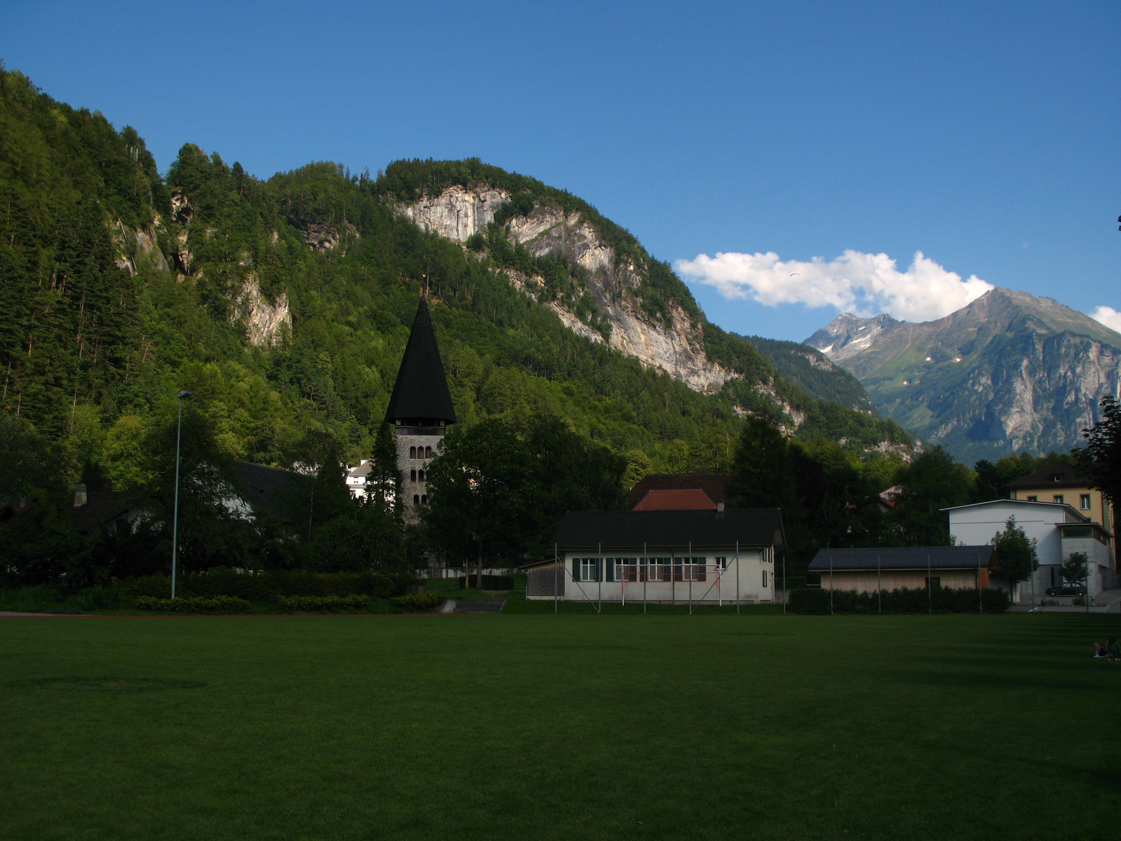 Evangelical Reformation Church, Meiringen, Switzerland